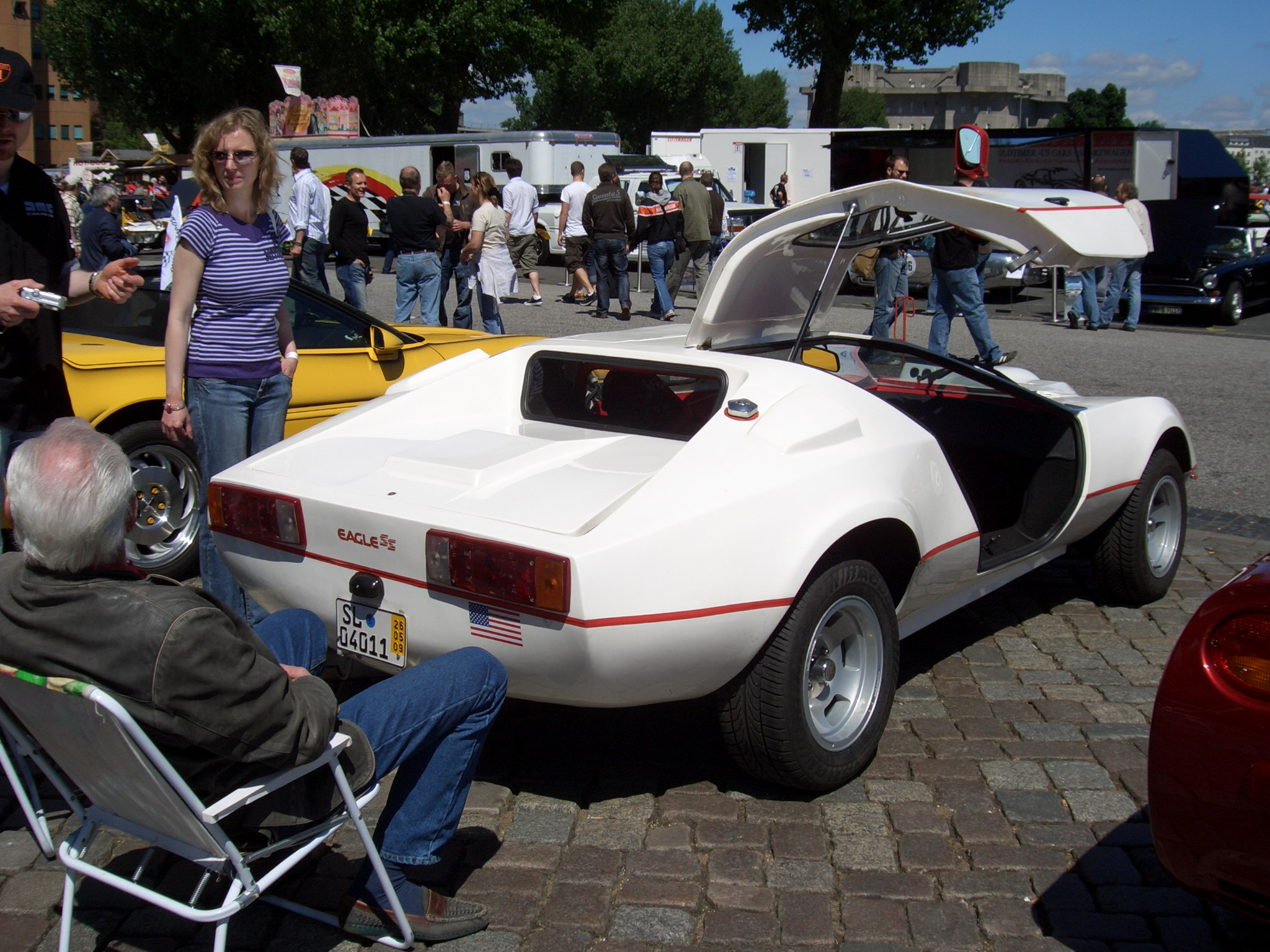 Eagle SS kit car